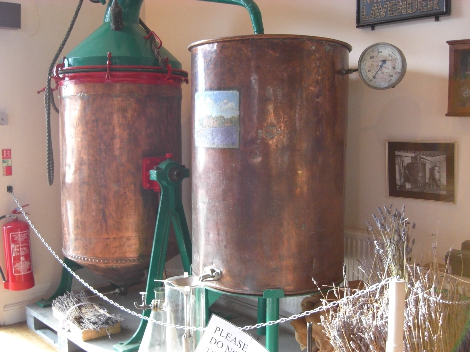 At the Norfolk Lavender farm and nursery (and distillery) in Heacham, Norfolk